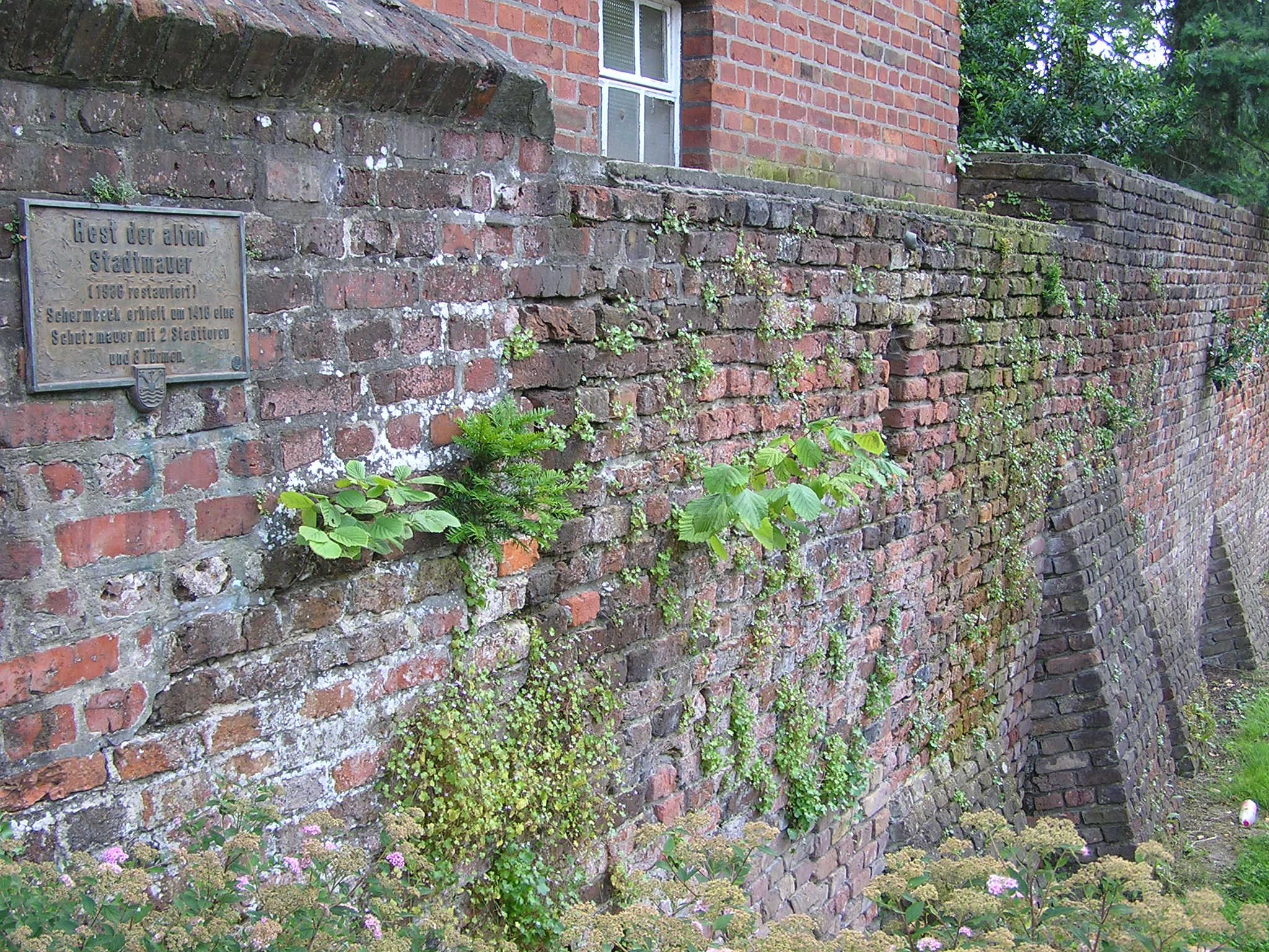 Rest of former city wall in Schermbeck, Germany